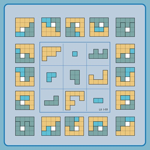 A 'normal' 3×3 geomagic square, meaning that piece sizes form the natural progression: 1,2,3,..